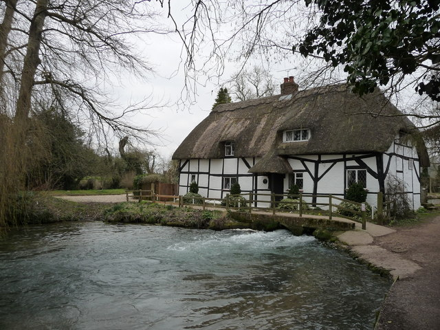 Alresford - Fulling Mill This fulling mill dates from the 13th century, a fulling mill was used to dry cloth after it was woven and then washed.